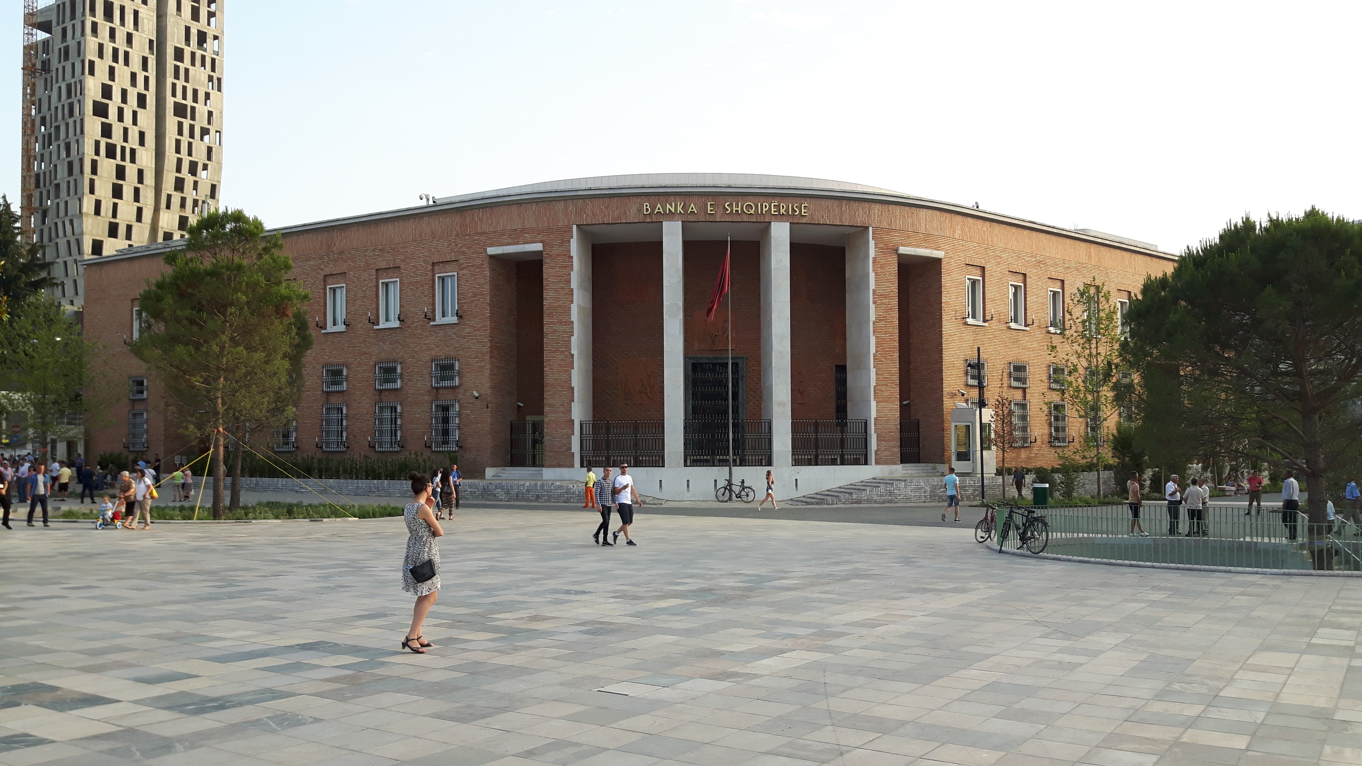 Main entrance of the Bank of Albania